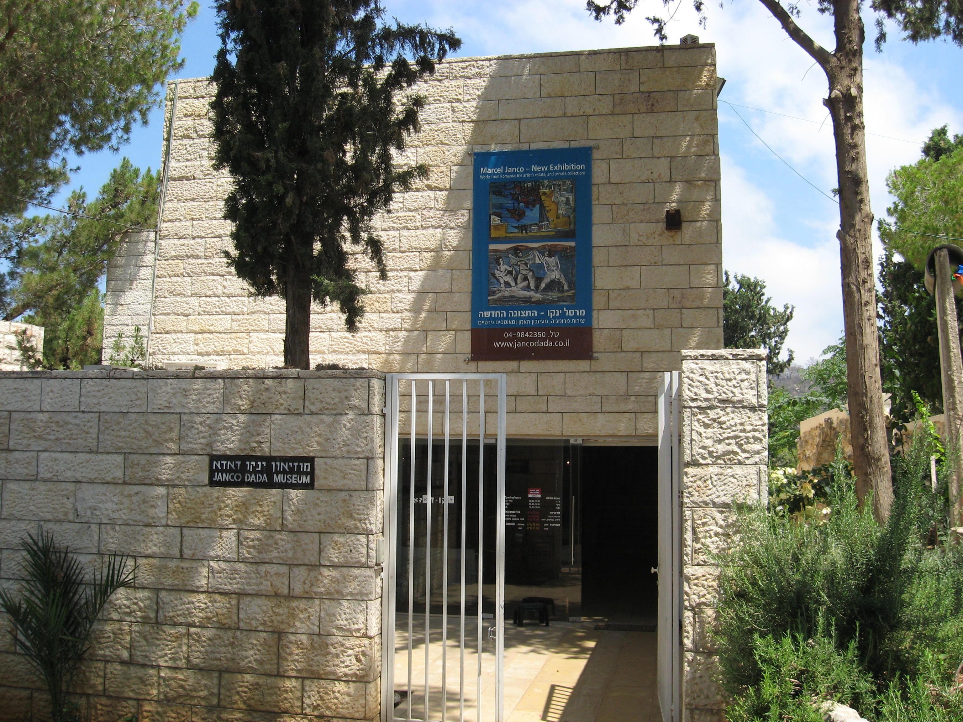 Janco Dada Museum in the artists village Ein Hod.